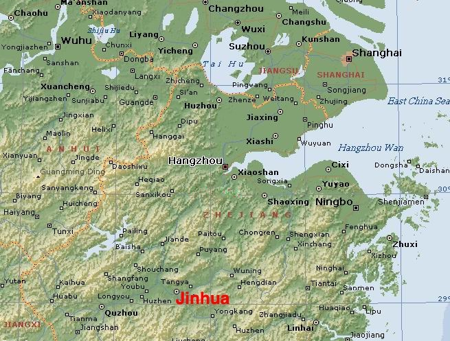 China Map, Jinhua Position